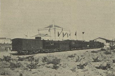 Inauguration of the Montijo Train Station, in Portugal, on the 4th October 1908. This image was originally published in the Occidente magazine No. 1073, of the 20th October 1908, and scanned by the Hemeroteca Municipal de Lisboa.